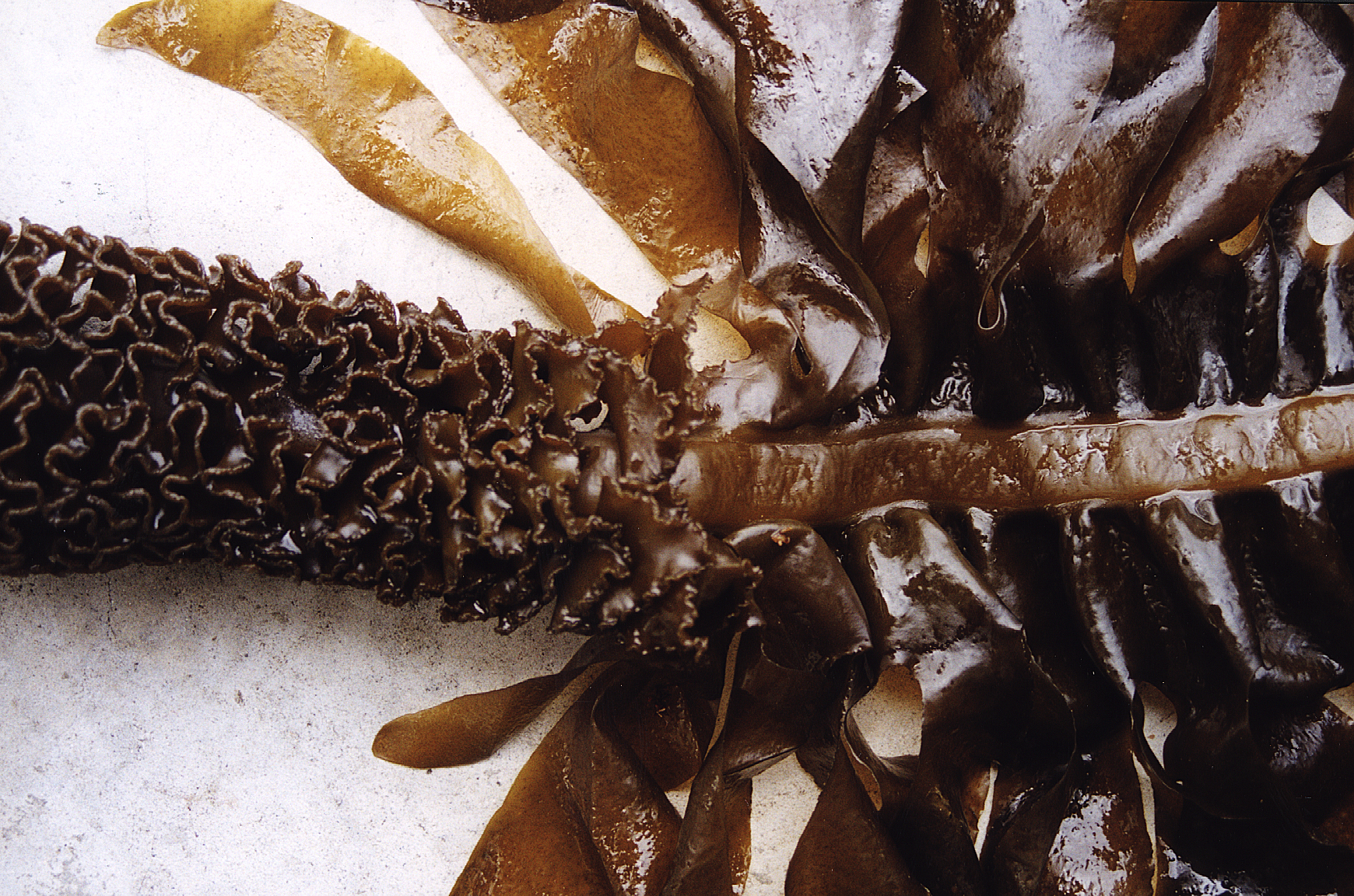 Undaria pinnatifida is a brown seaweed that reaches an overall length of 1-3 m. Undaria is a native of the Japan Sea and the northwest Pacific coasts of Japan and Korea. In Japan, Undaria, known locally as 'wakame', is extensively cultivated as a food plant. Japanese consumption of the alga is around 200,000 tonnes of fresh or dried plant per annum. Undaria is regarded as a pest because it is highly invasive, grows rapidly and has the potential to overgrow and exclude native seaweeds. It was first detected in Australia in 1988 near Triabunna on the east coast of Tasmania. Over the following ten years it spread along 100 kms of the Tasmanian east coast and also to Victoria - the most likely vector being international shipping.